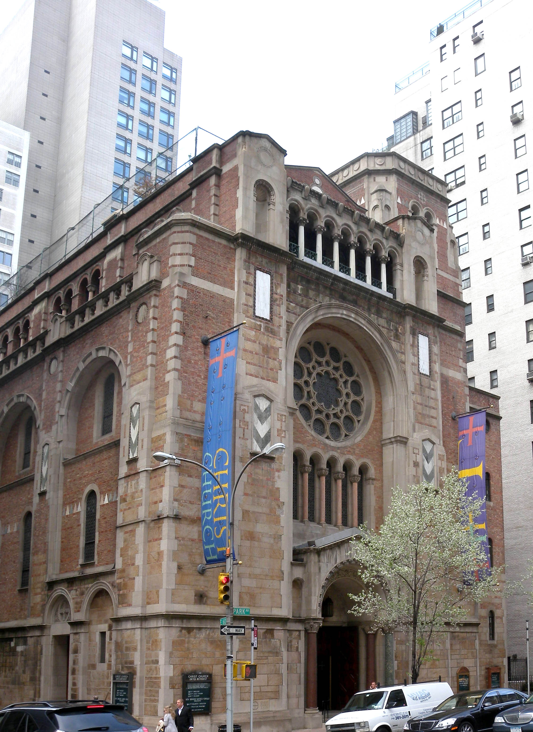 Looking northwest across Park Avenue and East 60th Street at Christ Church United Methodist on a cloudy day.